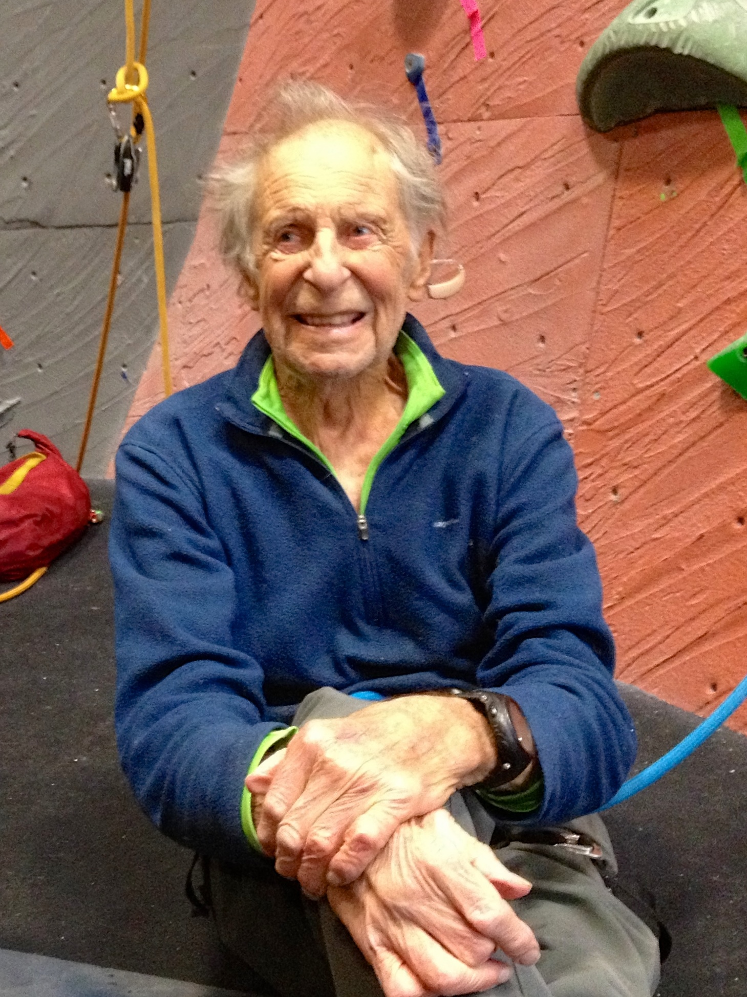 Fred Beckey was born in 1923. More about America's greatest climber here. When Fred is in the climbing gym, I am no longer the oldest climber on the walls!